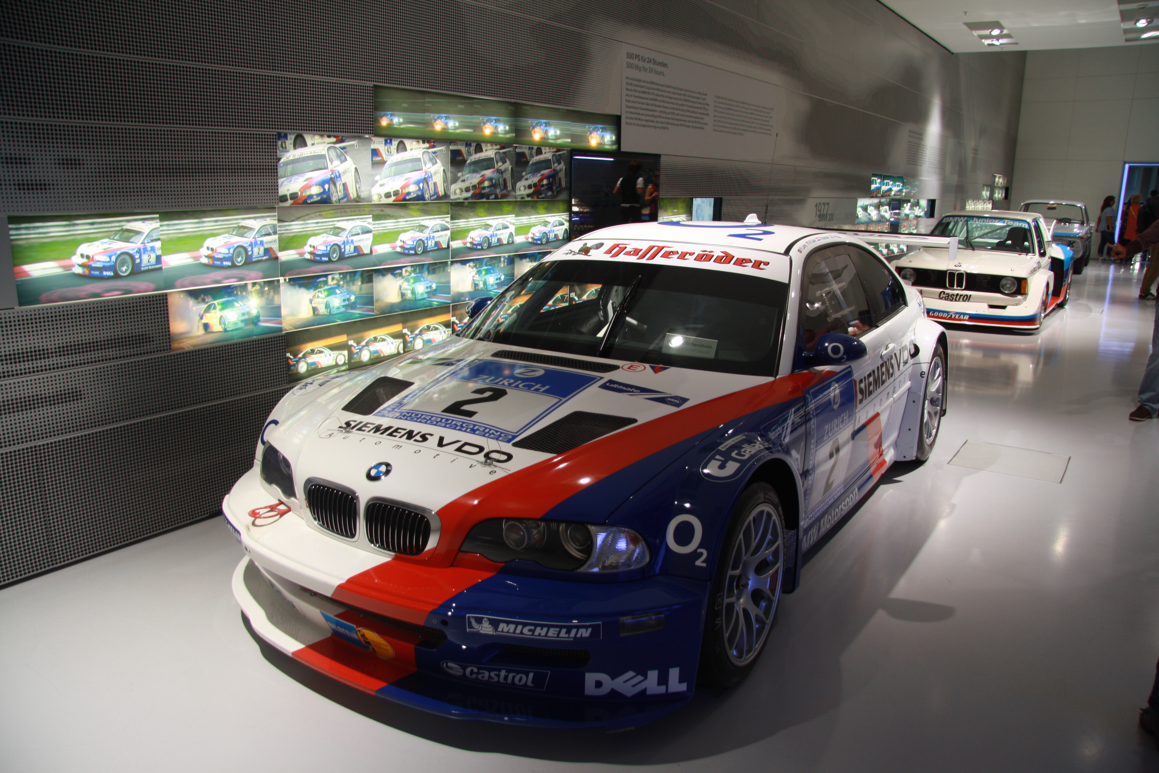 BMW M3 GTR in BMW-Museum in Munich, Bayern.